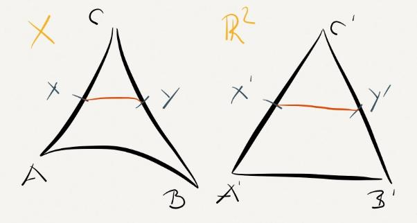 A triangle in a CAT(0) space is thinner than the comparison triangle in the euclidean plane.